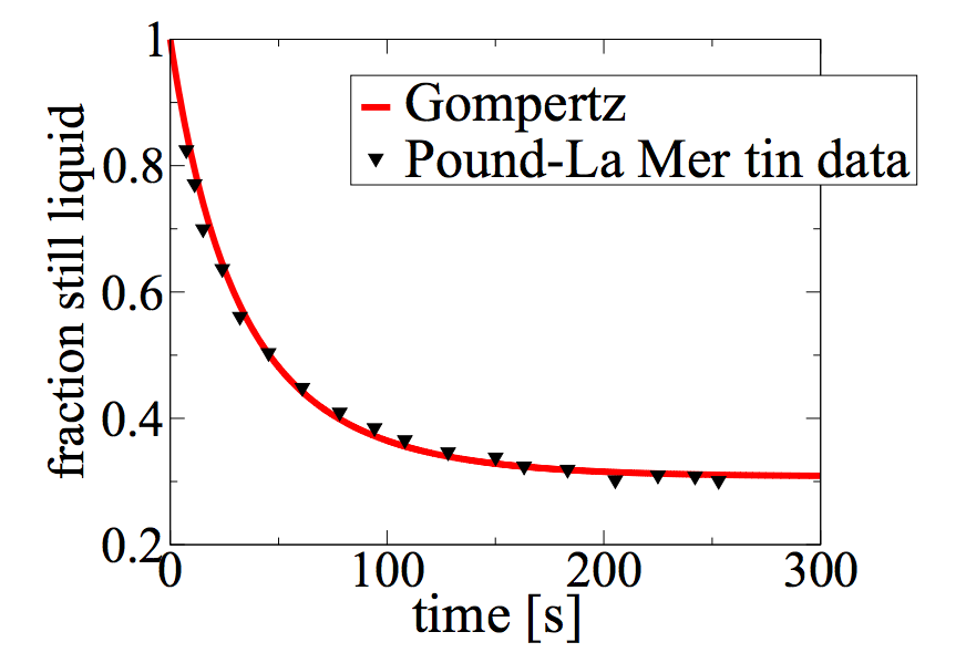 The black triangles are the fraction of a large set of small supercooled liquid tin droplets that are still liquid, i.e., where the crystal state has not nucleated, as a function of time. The data is from Pound and La Mer (JACS 1952 It is the data of experiment number 29, run 4 of the Fig. 3 in the original paper. I used datathief to extract the data from the figure. The red curve is a fit of a function of the Gompertz form to this data. If the fraction not frozen at time t is F(t), then the function is ln[F(t)] = – m[1-exp(kt)], and the best fit values are m = 1.18 and k = 0.019 /s.